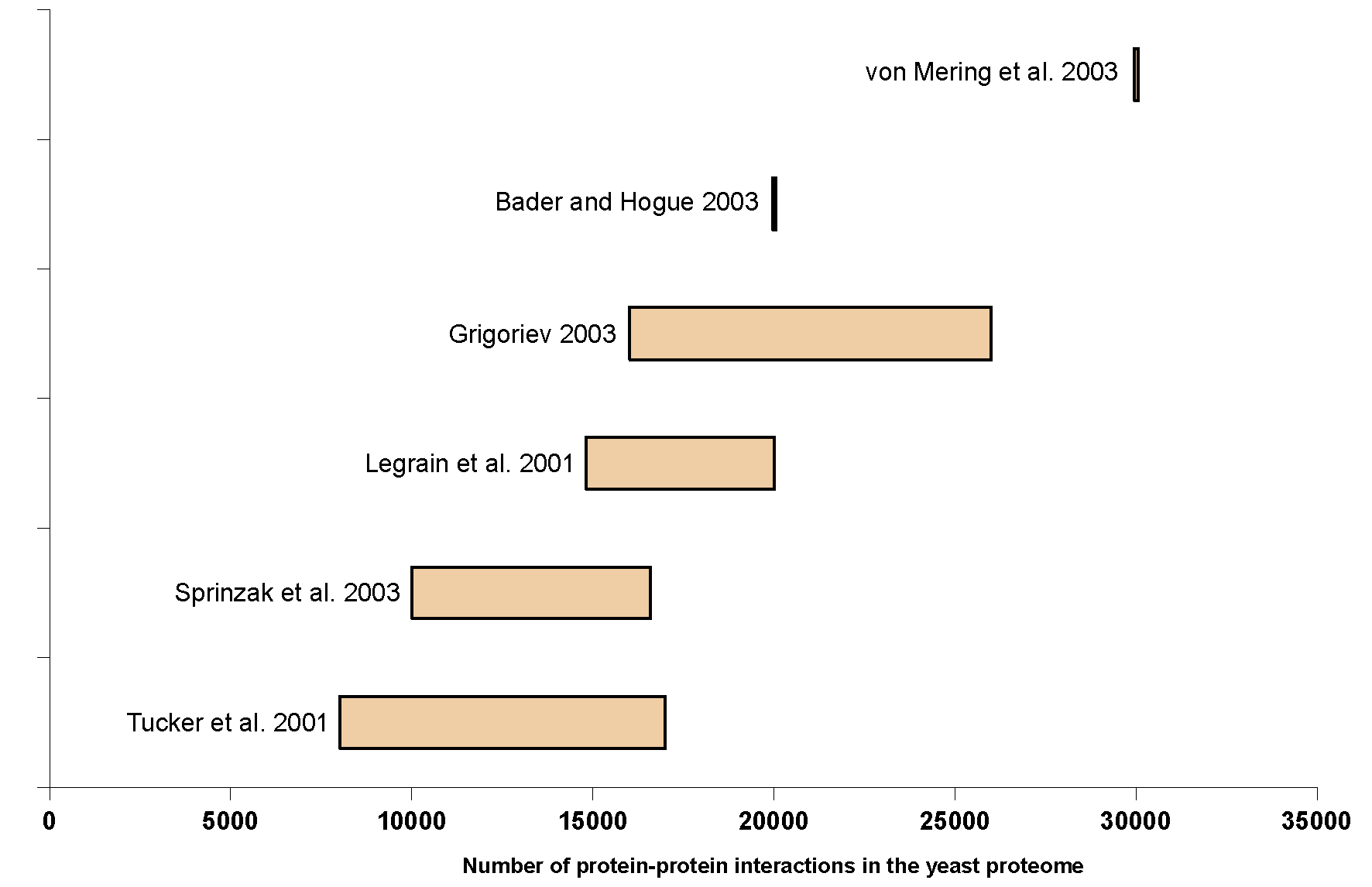 Estimated number of protein-protein interactions among yeast proteins by author and year.